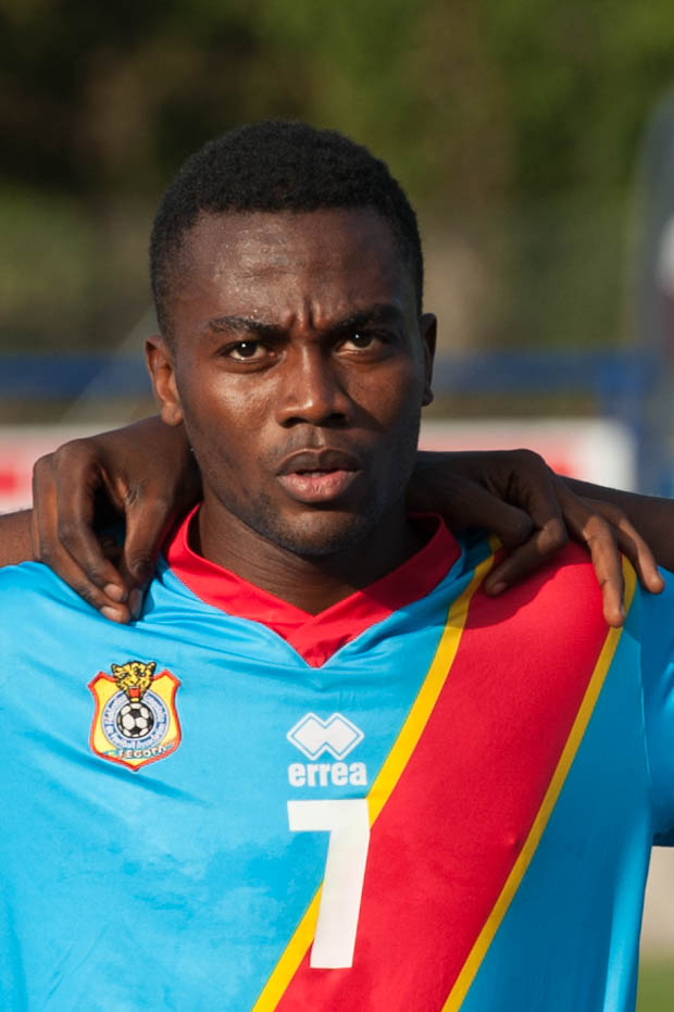 U21 Austria - DR Congo, 2014-10-12: Aristote Ndongala